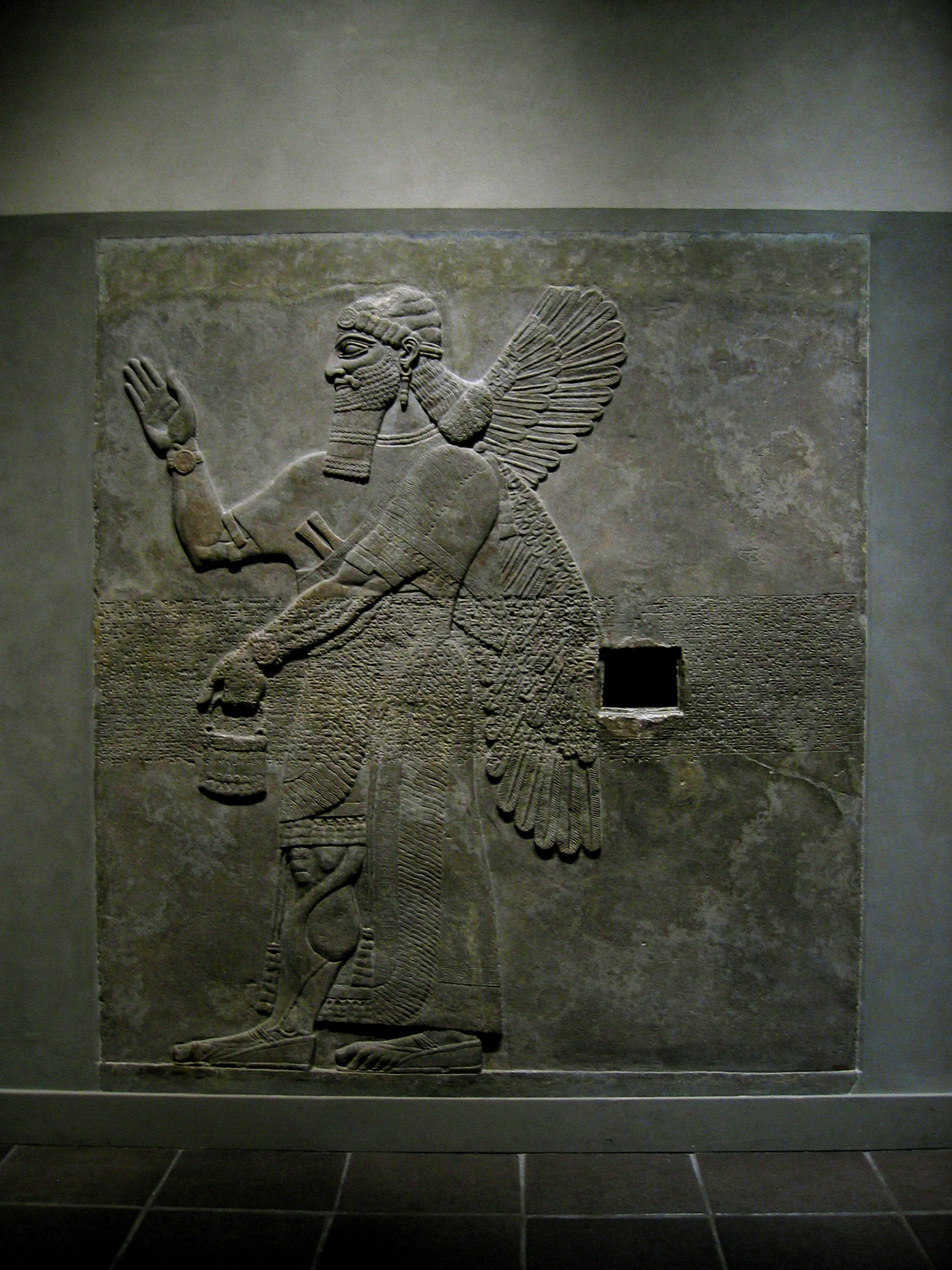 Assyria relief of the wing king, from city of Nimrud. Metropolitan Museum of Art, NYC.